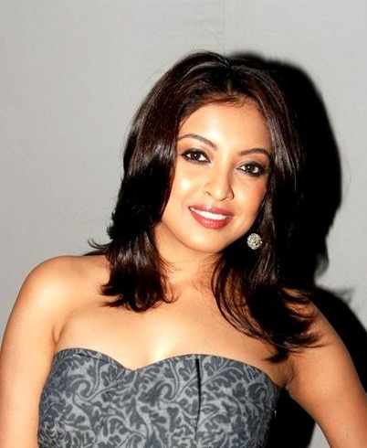 During the meet on Megamall Appartment